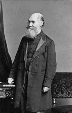 This image shows a photograph of Sir Henry Young, taken ca. 1880. Under Australian law, all photographs taken in Australia before 1955 are in the public domain. This image is in the public domain under both Australian copyright law and US copyright law. Accessed from